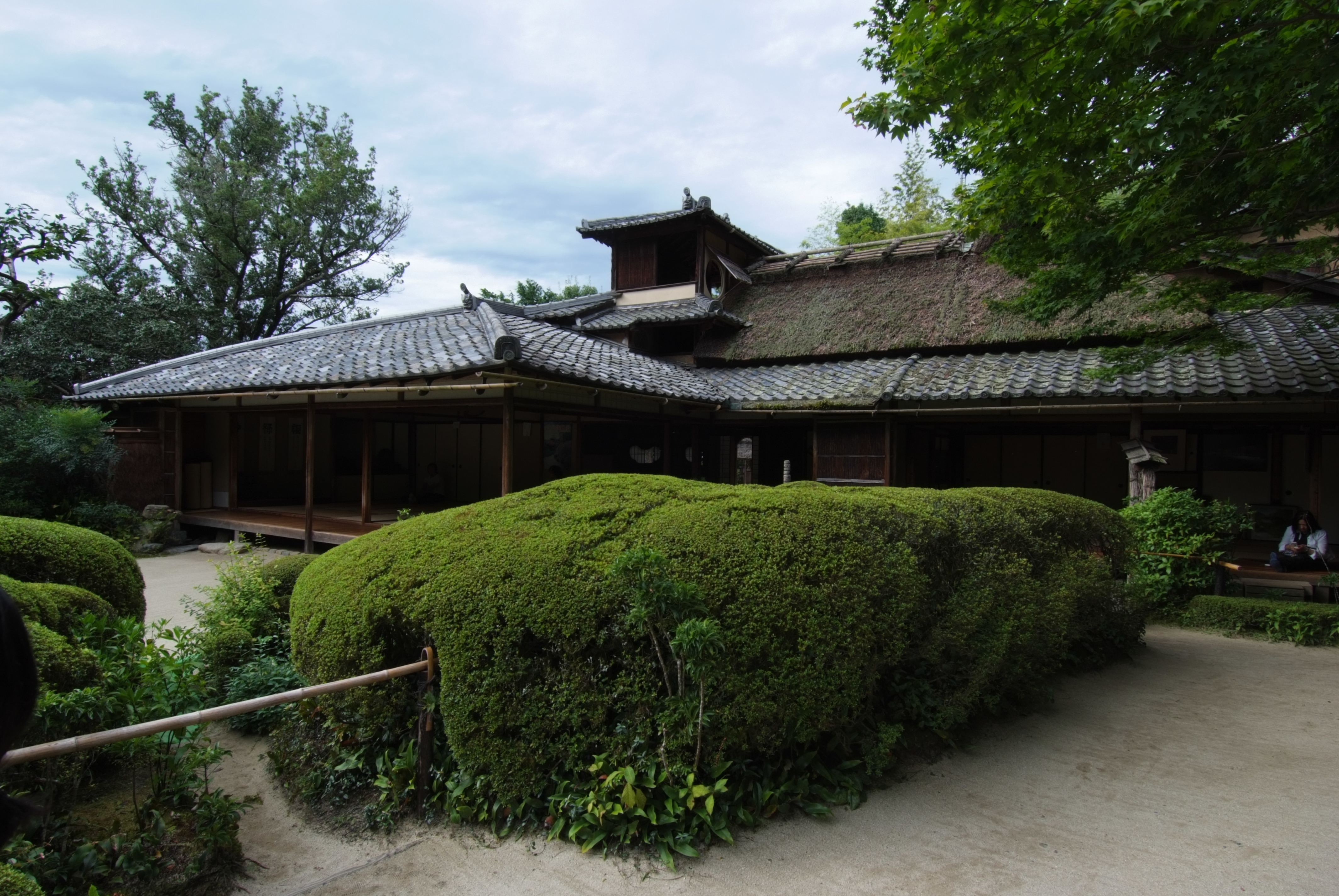 Shisen-dō, at Kyoto Japan, built in 1641.